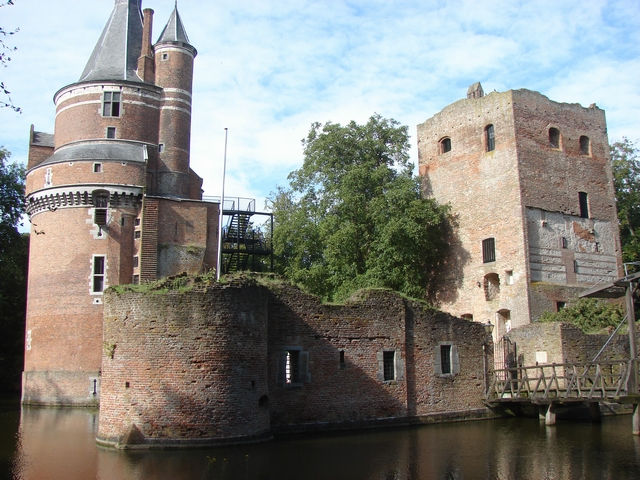 Castle Duurstede